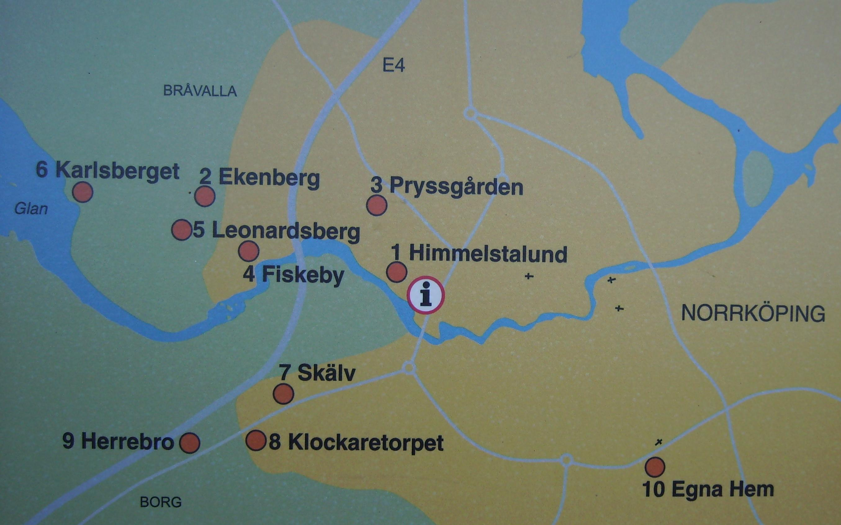 Photo by Harri Blomberg.